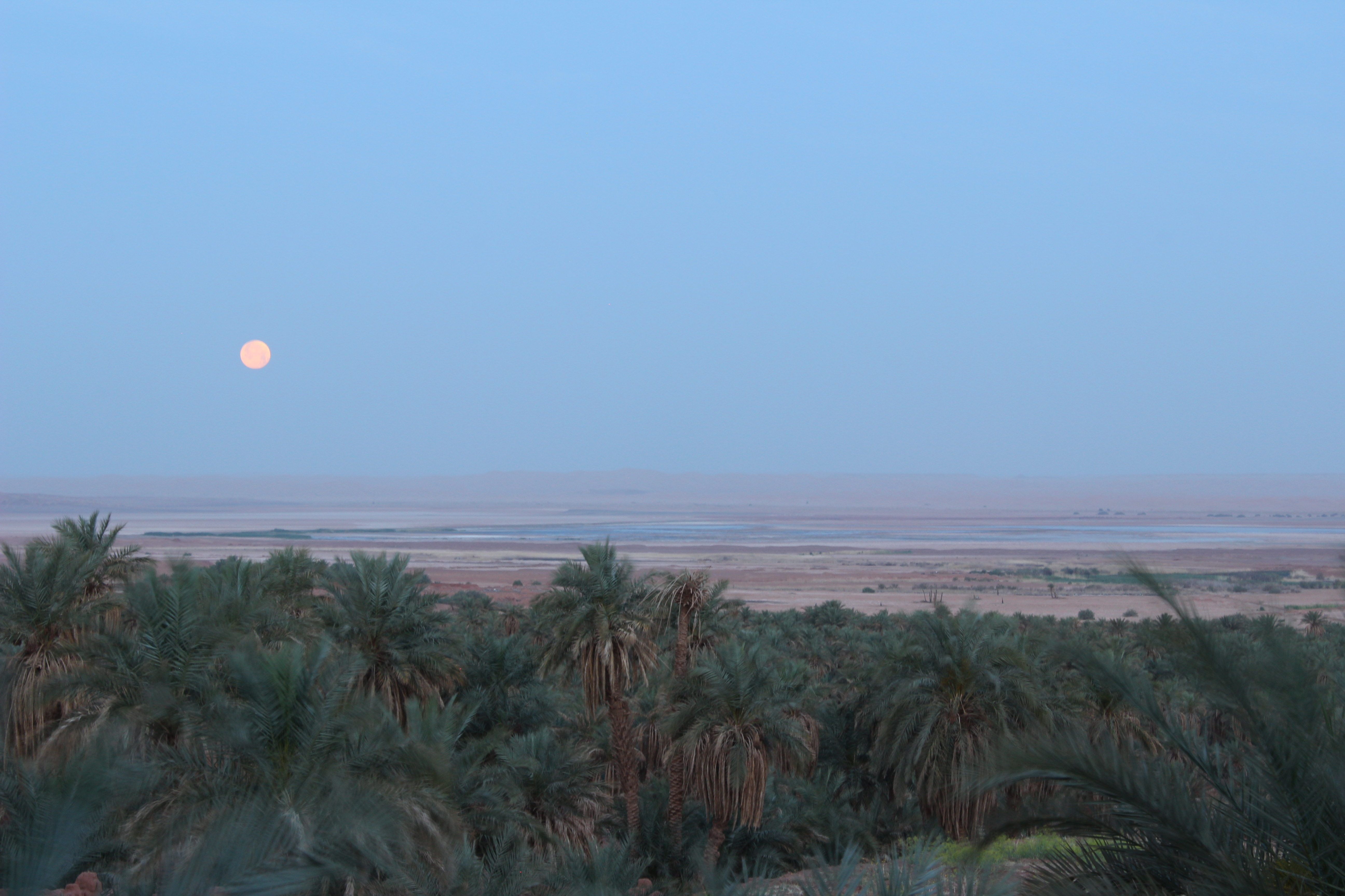 Timimoun's Oasis By sunrise